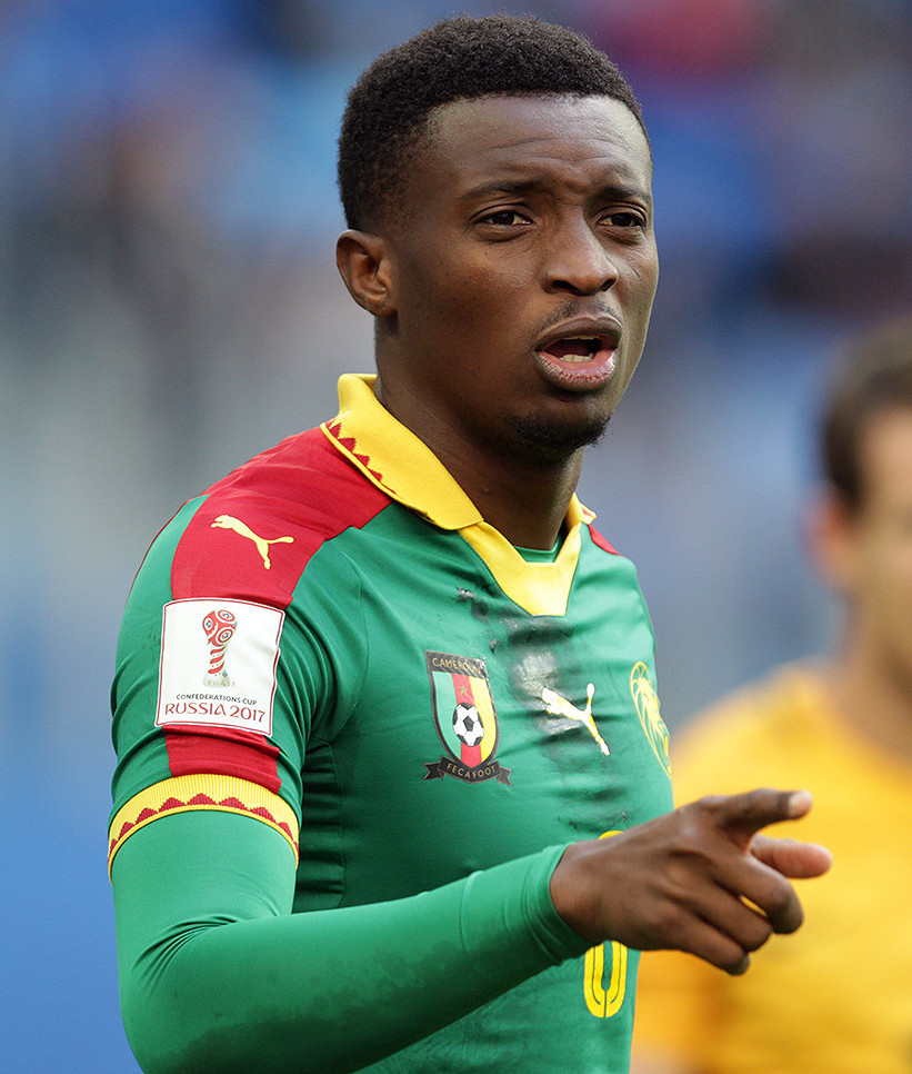 Cameroon vs Australia (1-1). FIFA Confederations Cup 2017